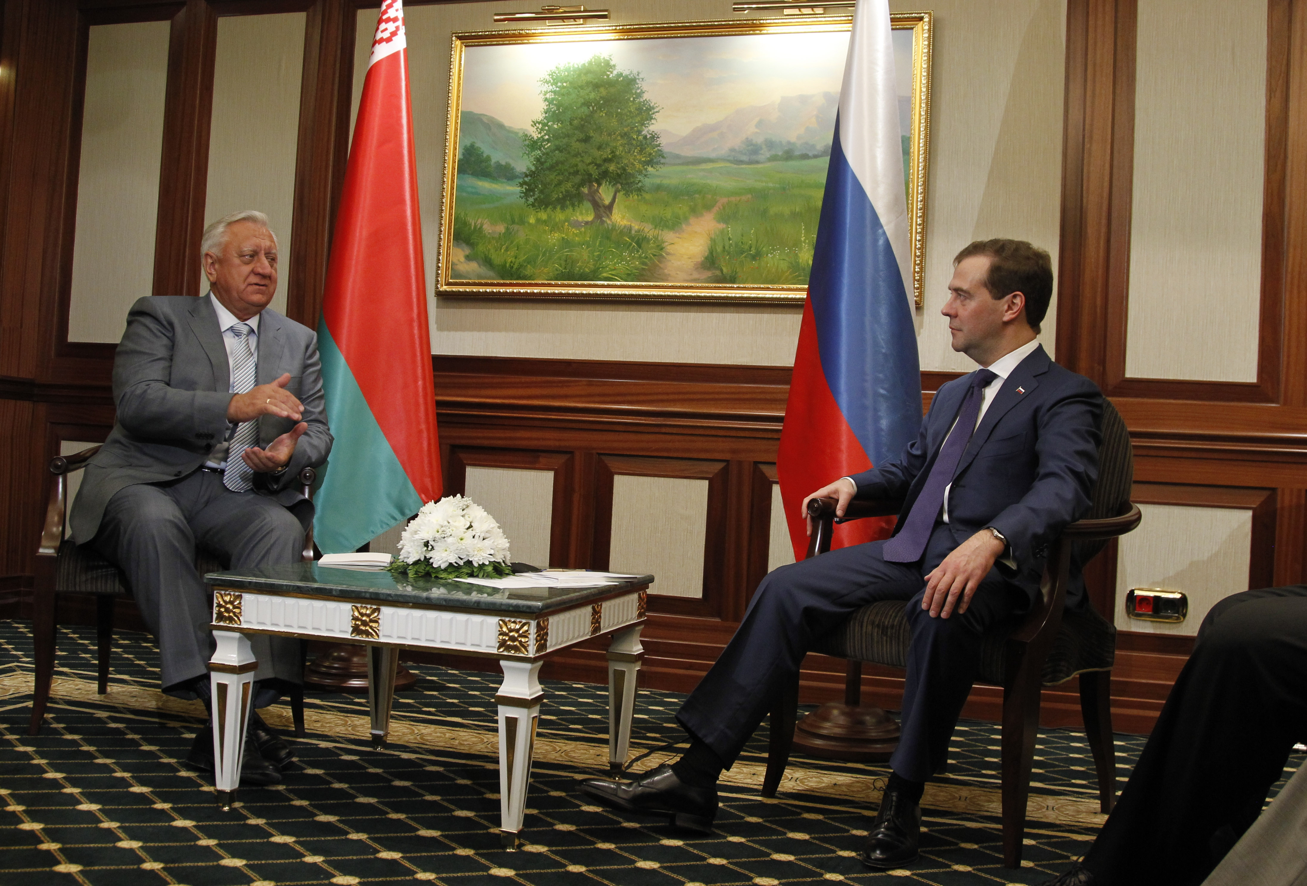 Prime Minister of the Belarus Mikhail Myasnikovich and Prime Minister of the Russian Federation Dmitry Medvedev